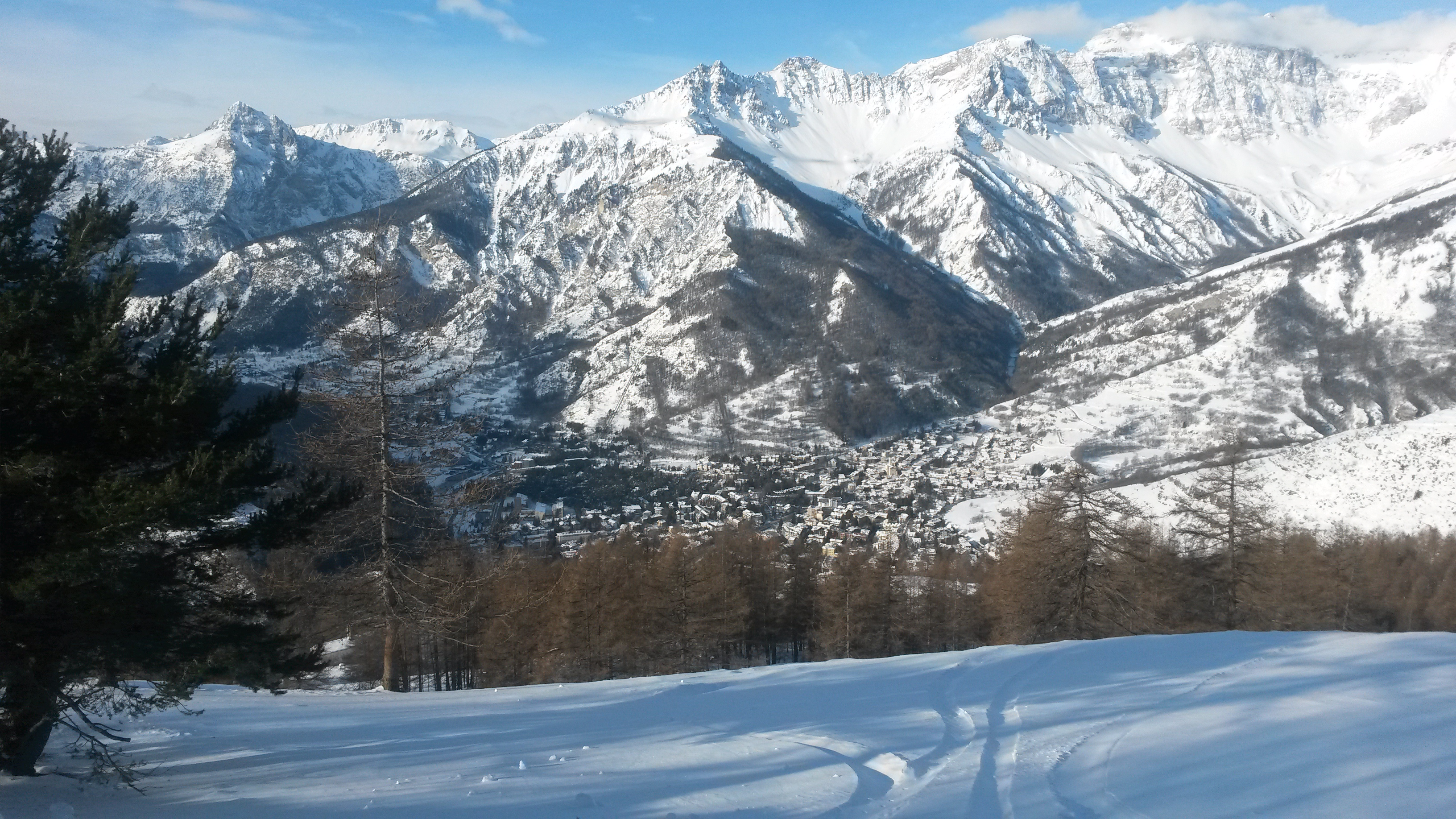 View on Bardonecchia (Italy) from an altitude of about 1900 m